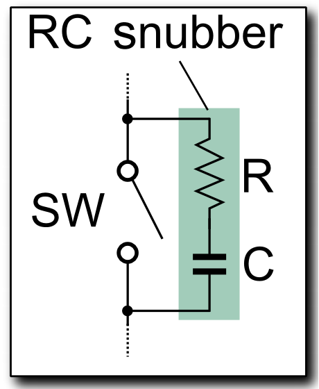 A model of RC Snubber circuit.